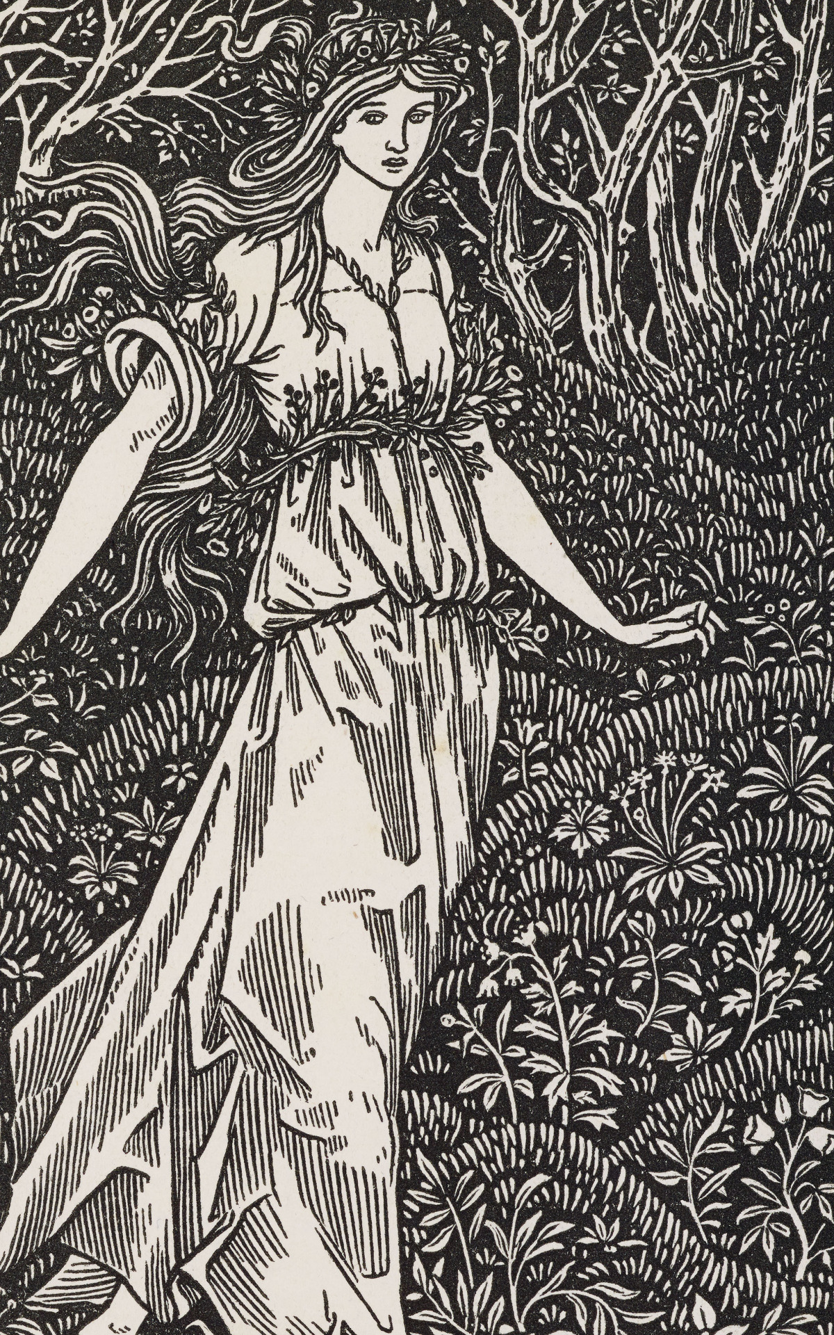 Detail of the wood engraving designed by Edward Burne-Jones for the frontispiece of William Morris The wood beyond the world (Kelmscott Press, 1894). The Kelmscott Press, founded by William Morris in 1891, is probably the most influential and certainly the most famous of all private presses. Morris revived the traditional crafts of hand-printing and handmade paper in England, and took the concept of book design to a new level.